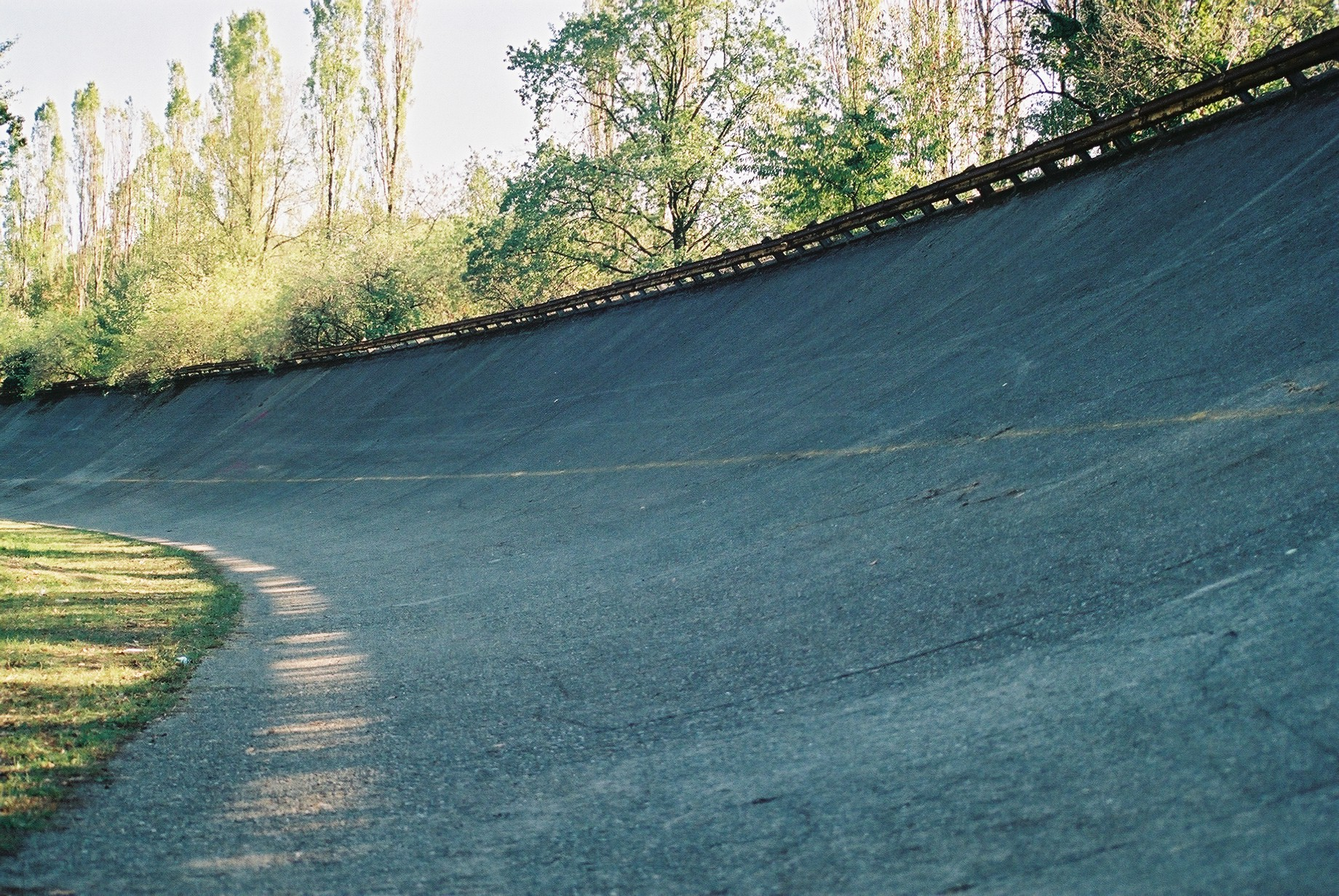 The surviving banking at the Autodromo Nazionale Monza as photographed in September 2004.